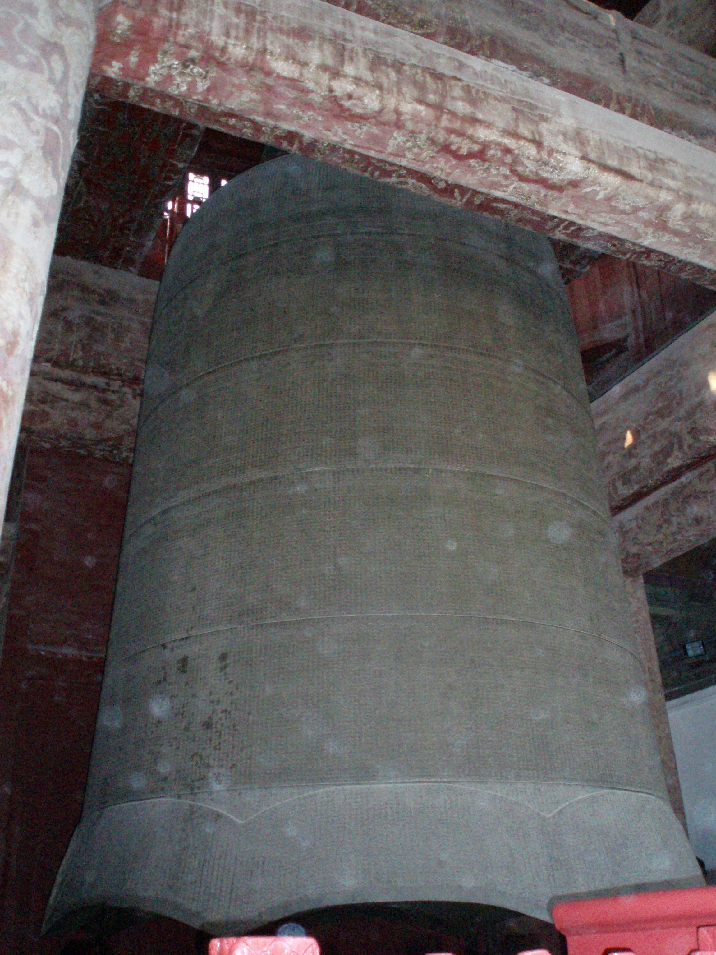 Yong'le Bell, made in 1420s. 中文（香港）: 明成祖年間所鑄的永樂大鐘。